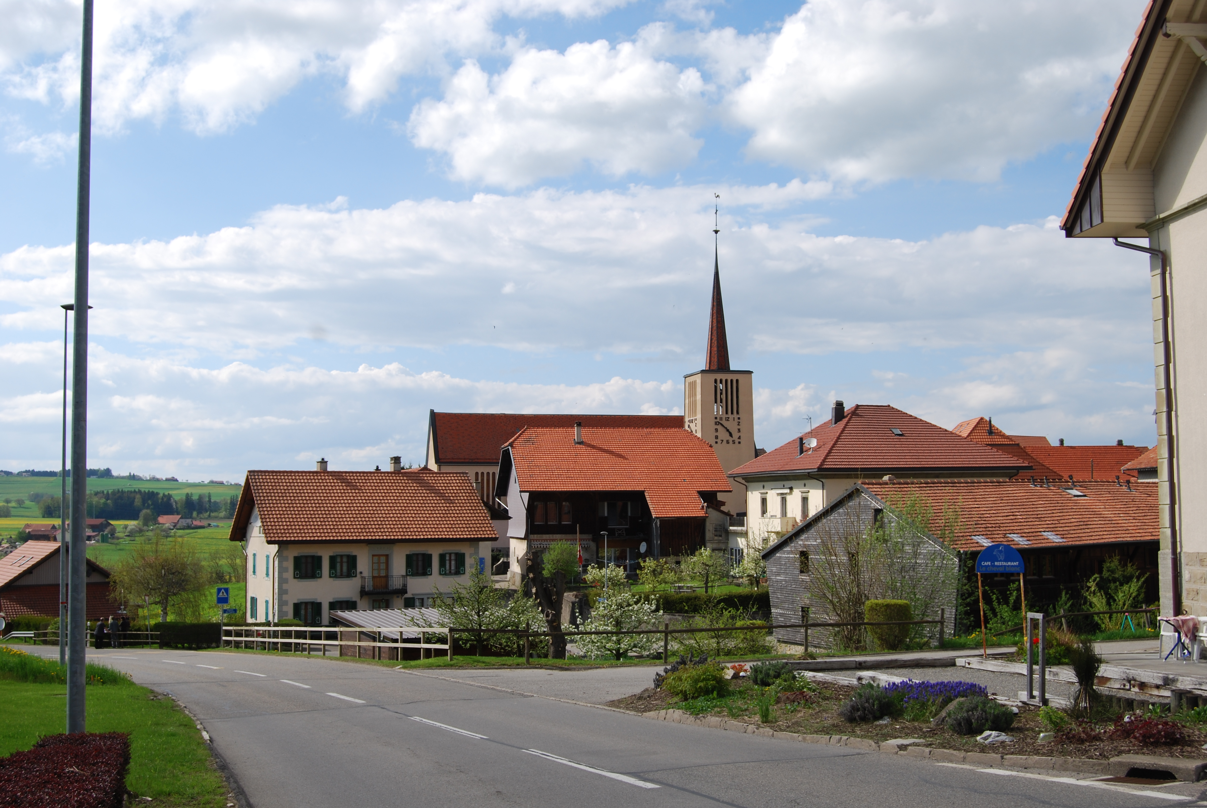 Orsonnens, municipality Villorsonnens, canton of Fribourg, Switzerland